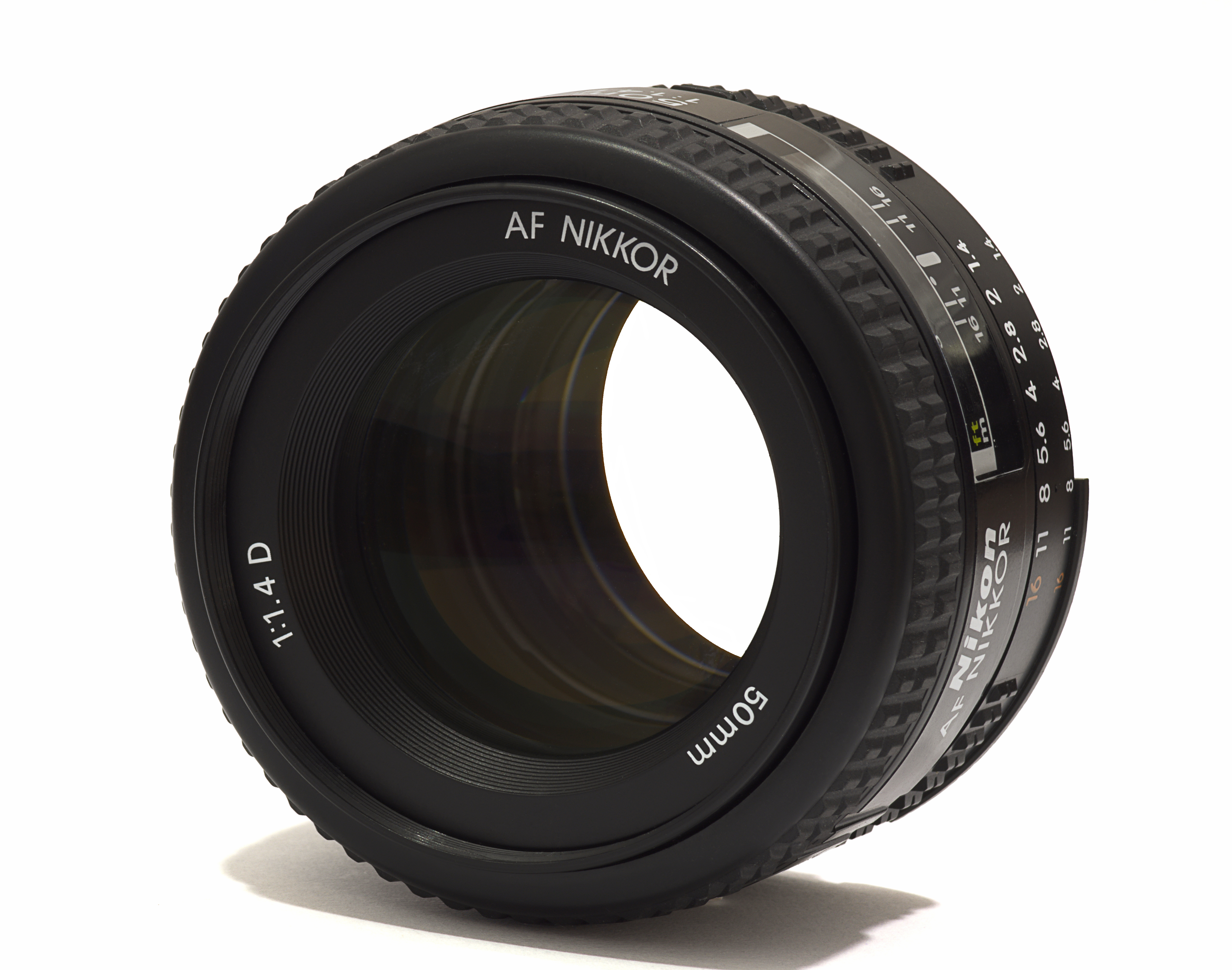 AF-D Nikkor 50mm F 1.4G